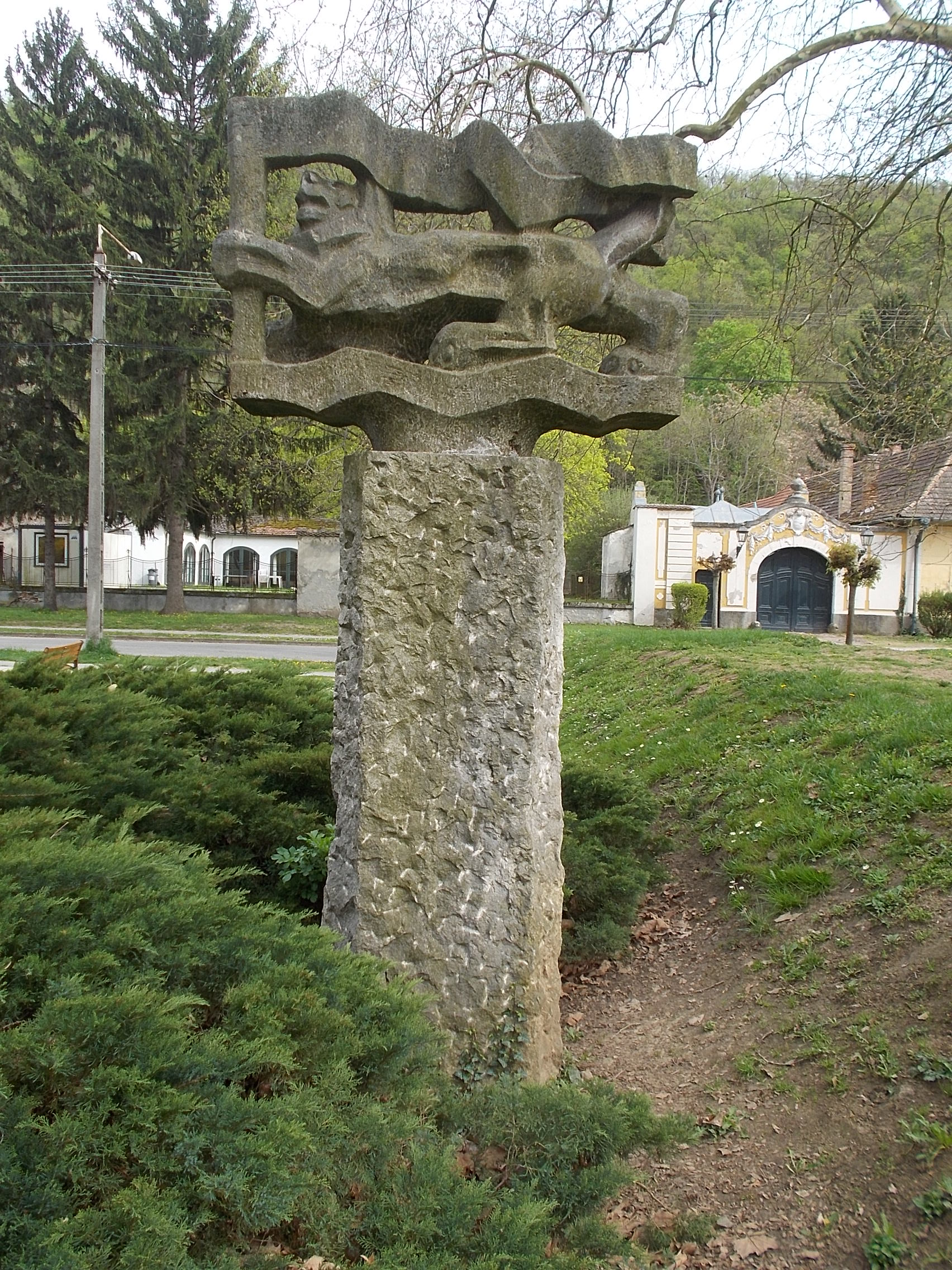 Lion by István Paál (1972 work, limestone, 320 cm high, park decorative statue) in a Park. the lion has a flag in his paw under its the Danube waves?. - Fő street off, Visegrád, Pest County, Hungary.